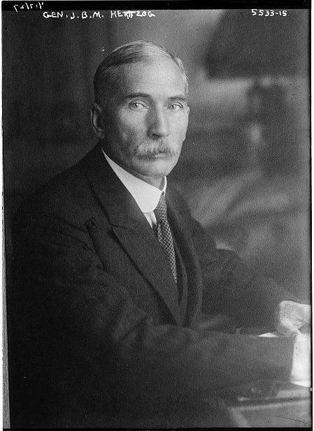 Gen. J.B.M. Hertzog (National Party founder and leader from 1915 to 1935, south african prime minister from 1924 to 1939)